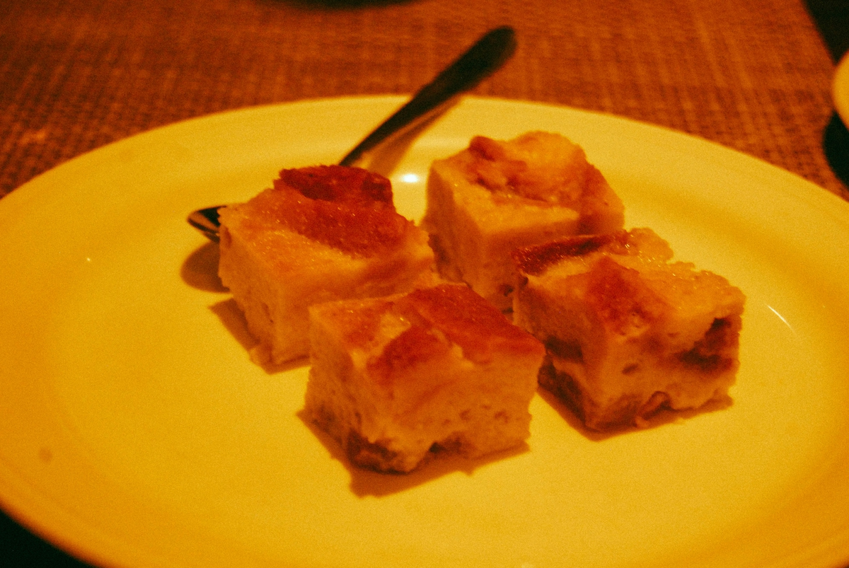 Bread and butter pudding is a traditional pudding popular in British cuisine. It is made by layering slices of buttered bread scattered with raisins in an oven dish, over which an egg, milk or cream mixture, normally seasoned with nutmeg, vanilla or other spices, is poured.